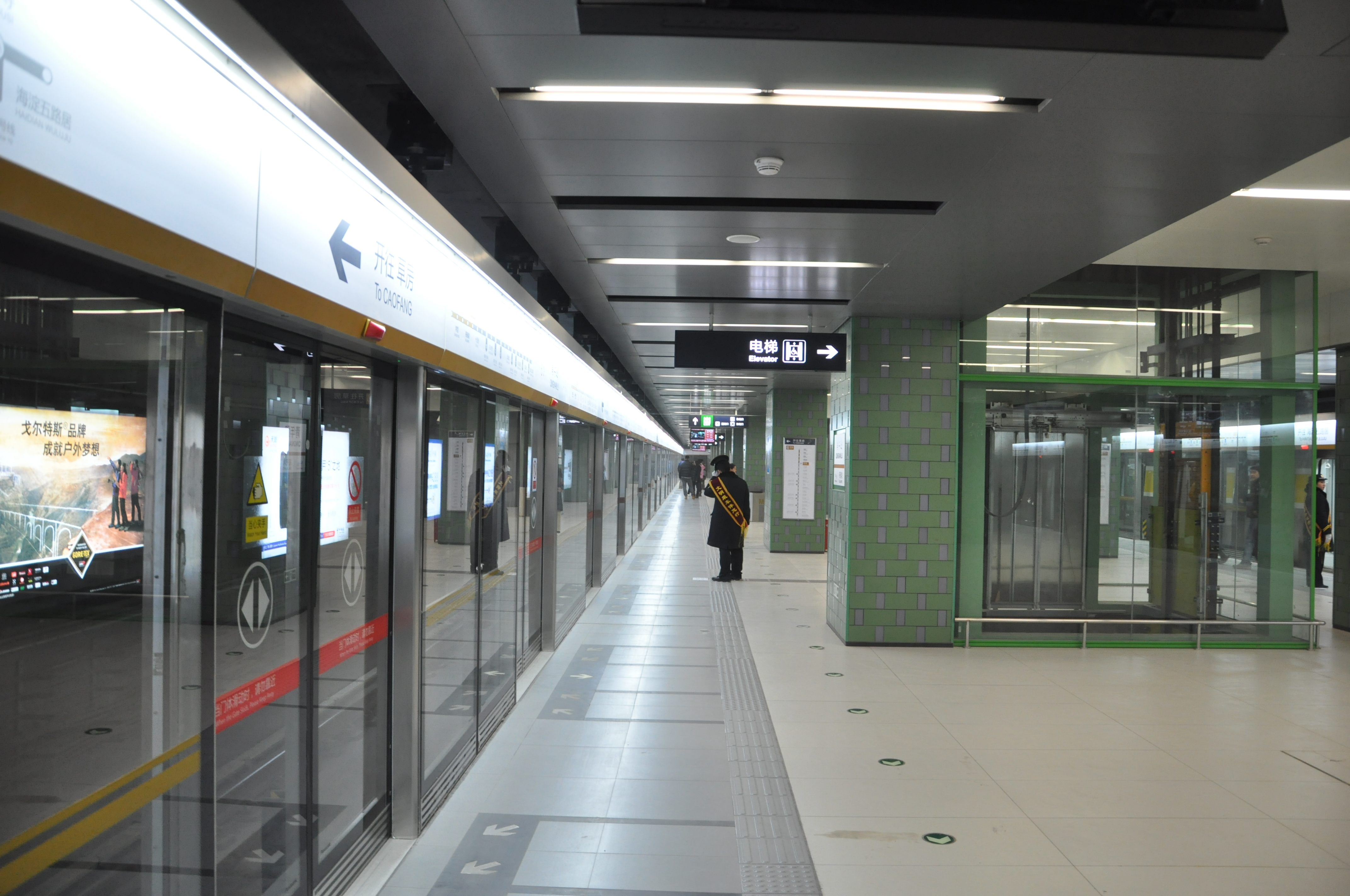 Platform of Qingnianlu station, Line 6, Beijing Subway.